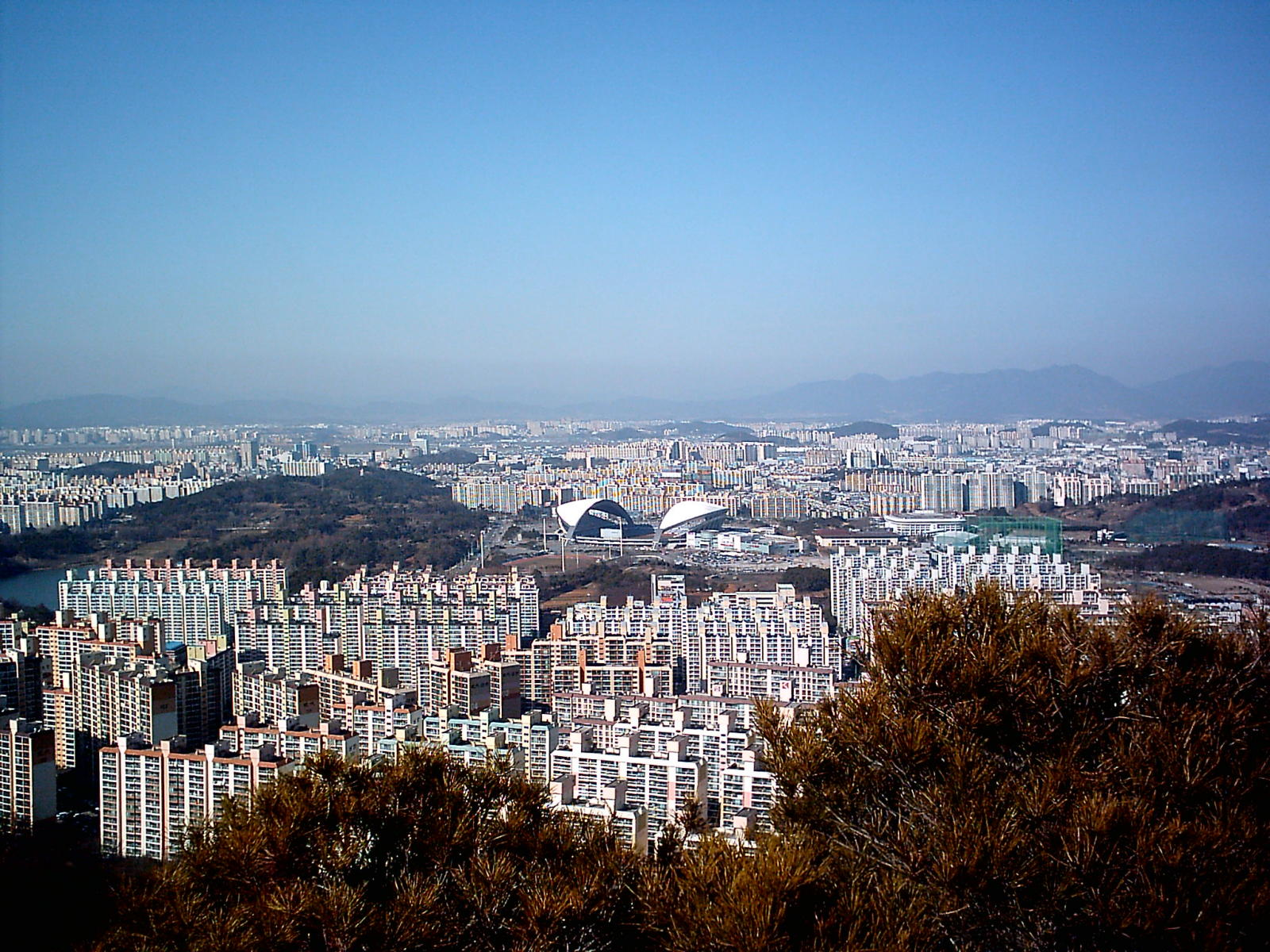 A view of Gwangju (in South Korea) that shows one of the world cup stadiums. This picture was taken by CD and is fully given as GFDL for use in Wikipedia. Enjoy.